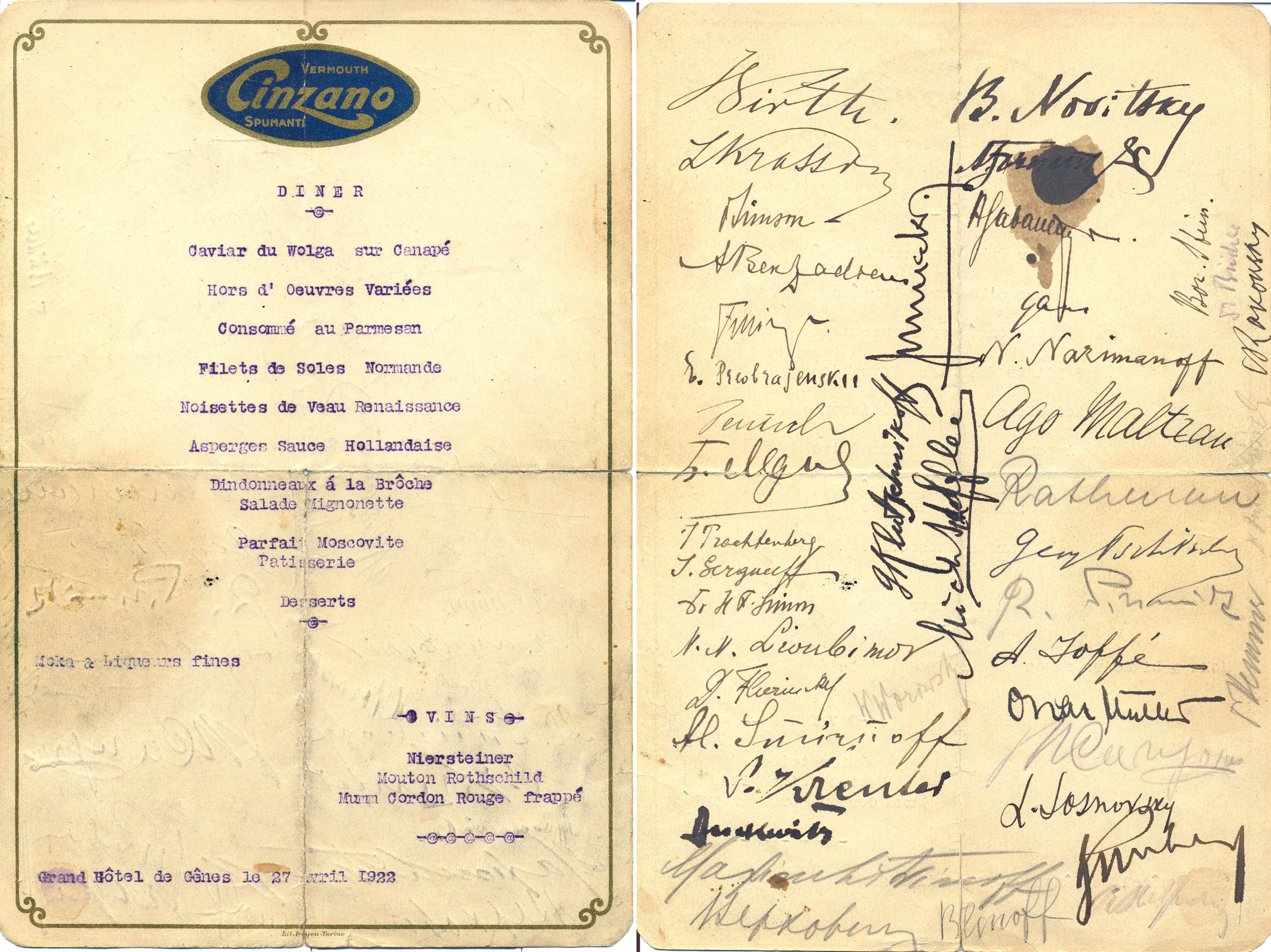 Menu of a Joint Diner with signatures of the Russian and German Delegation